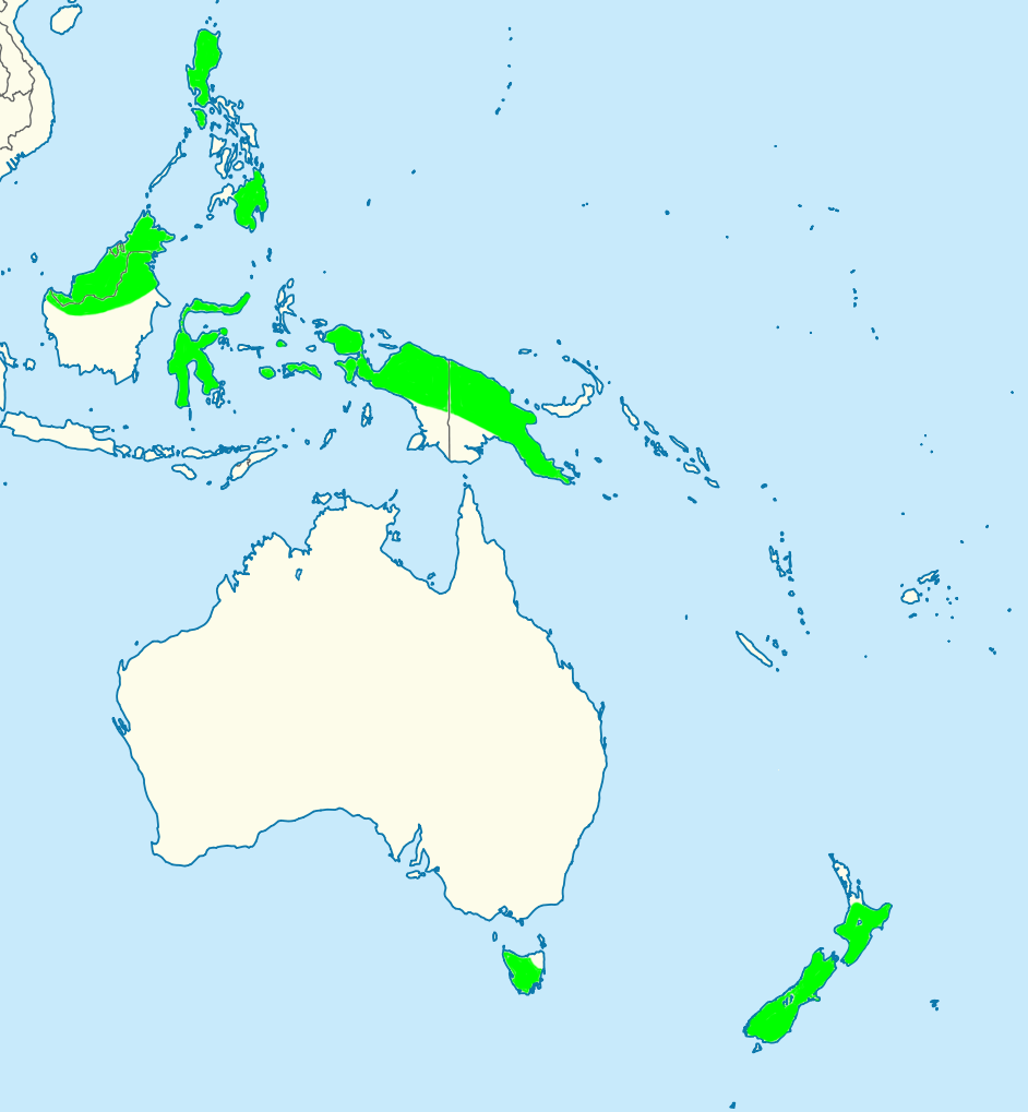 The Range of Phyllocladus